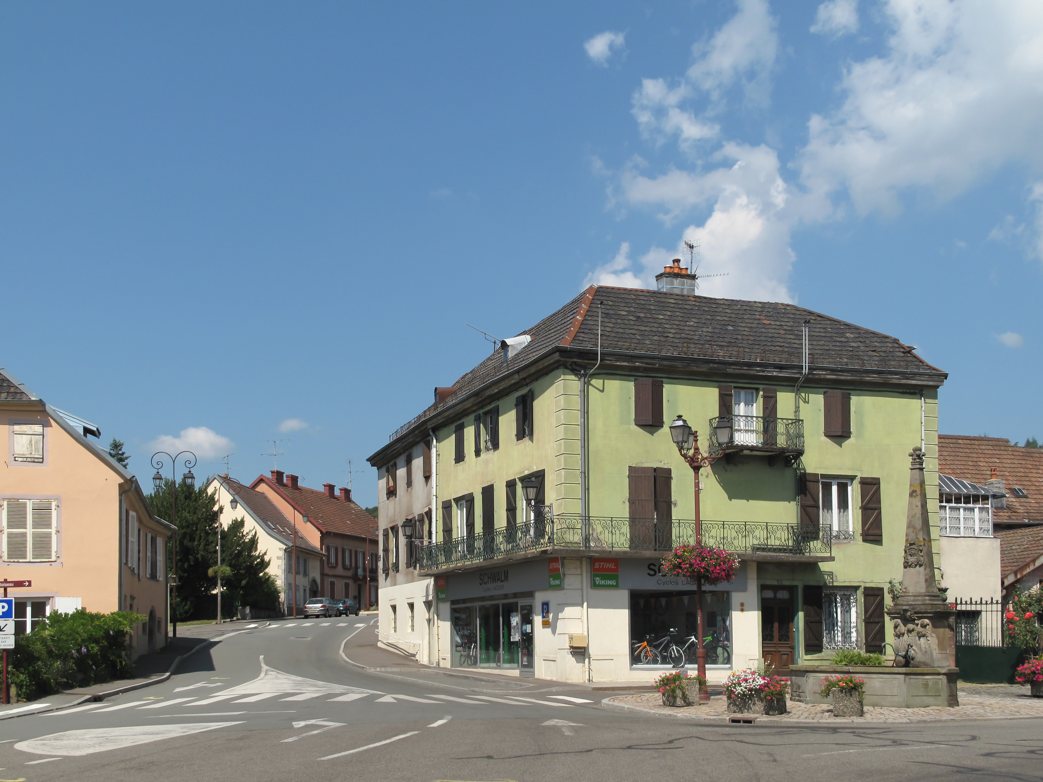 Giromagny, monument commémoratif de la réunion de l'Alsace à la France en 1648 in the street